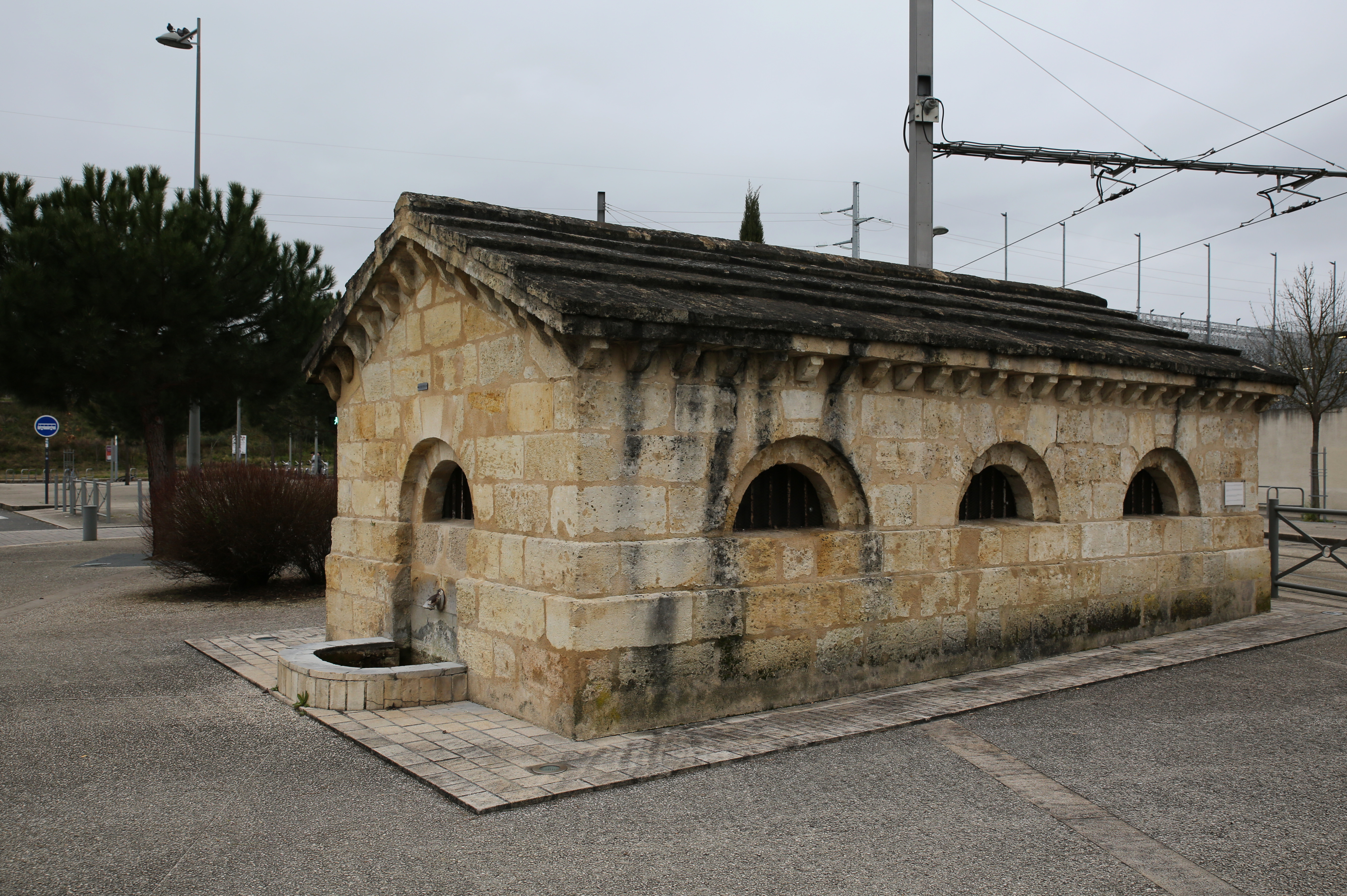 Fontaine d'Arlac